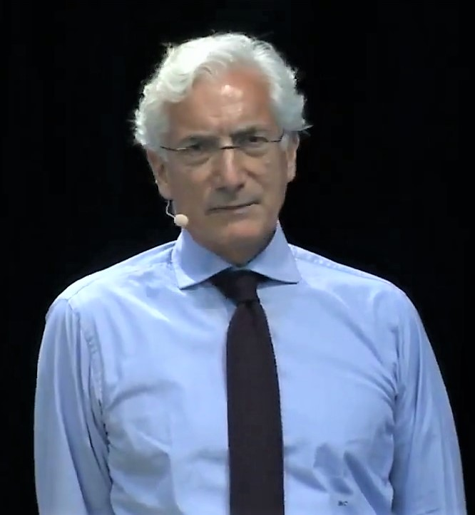 SOCAP14 - Private Capital, Public Good Private Capital, Public Good: An Update on the US National Advisory Board on Impact Investing Matt Bannick / Omidyar Network Sir Ronald Cohen / Social Impact Investment Taskforce established by G8 countries Penelope Douglas / Mission Hub LLC Jonathan Greenblatt / The White House SOCAP14 - Igniting Vibrant Communities Fort Mason Center, San Francisco, CA September 2-5, 2014